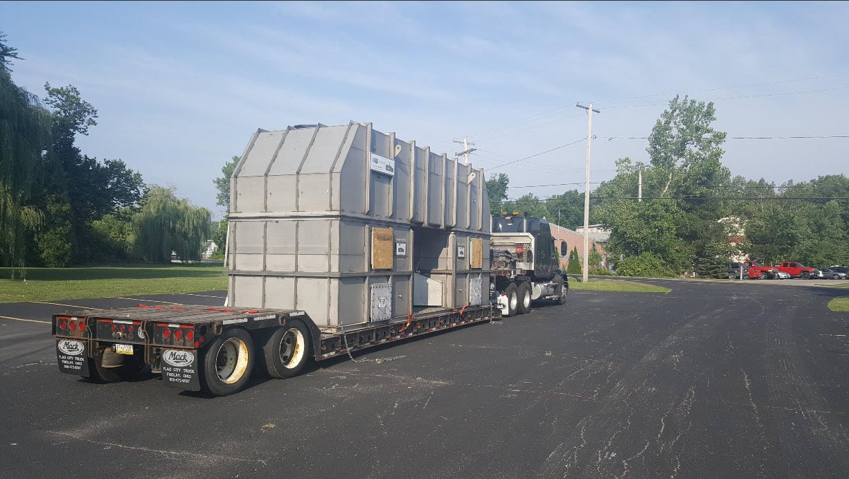 Loading of a thermal oxidizer at the point of origin en route to a manufacturing plant.